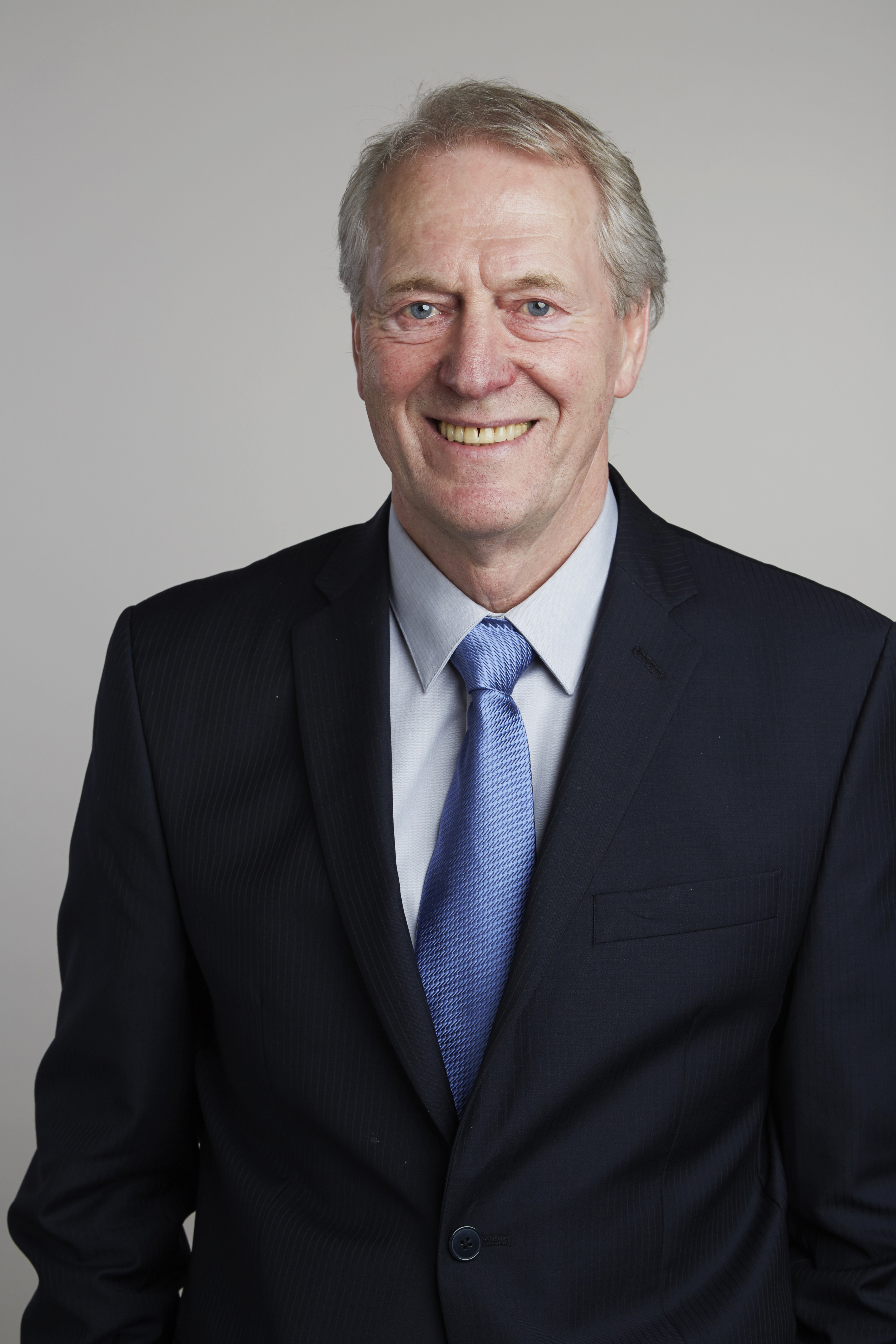 Allan Balmain was born in Wick, Scotland and studied Organic Chemistry at the University of Glasgow. He obtained Fellowships from the Royal Society and the Alexander von Humboldt-Stiftung to pursue research in Strasbourg and Heidelberg on the mechanism of action of “tumour promoters”. He then worked at the Beatson Institute, Glasgow, before moving to the United States in 1997. Balmain has pioneered the use of the mouse as a model system for understanding the complexity of cancer at the genetic, molecular and cellular levels. He established the first molecular link between chemical carcinogen exposure and initiation of tumour development, investigated the genetic basis of cancers induced by radiation, and used mouse genetics to identify genetic variants that cause cancer susceptibility. He was elected Fellow of the Royal Society of Edinburgh in 1995, and Fellow of the Royal Society in 2015. In the US he was elected Fellow of the American Association for the Advancement of Science, and received the American Skin Association Achievement Award and the Herman Beerman Award from the Society for Investigative Dermatology. Attribution: The Royal Society